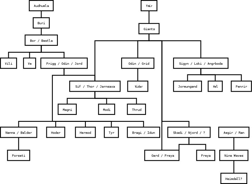 Genealogical Tree of Norse Gods (Aesir)